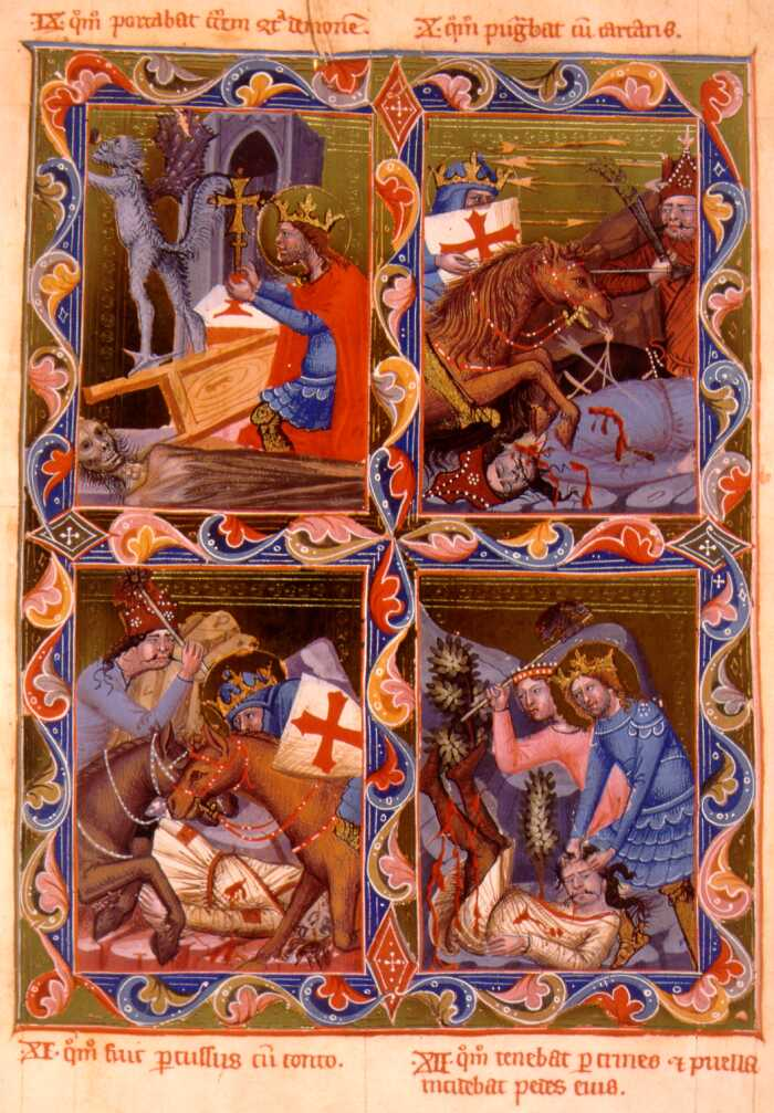 Anjou Legendarium